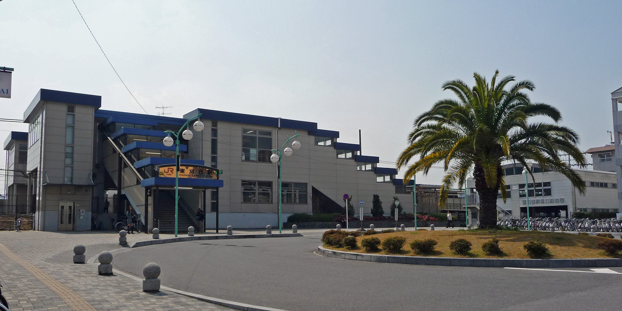 Higashi-kariya Station North entrance.